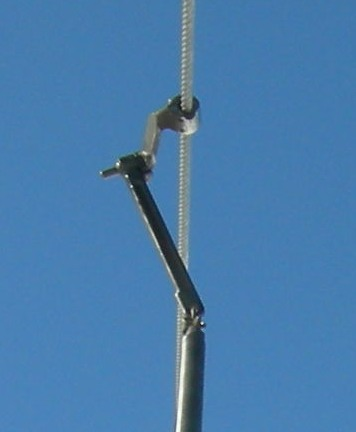 A Platter lift cable grip